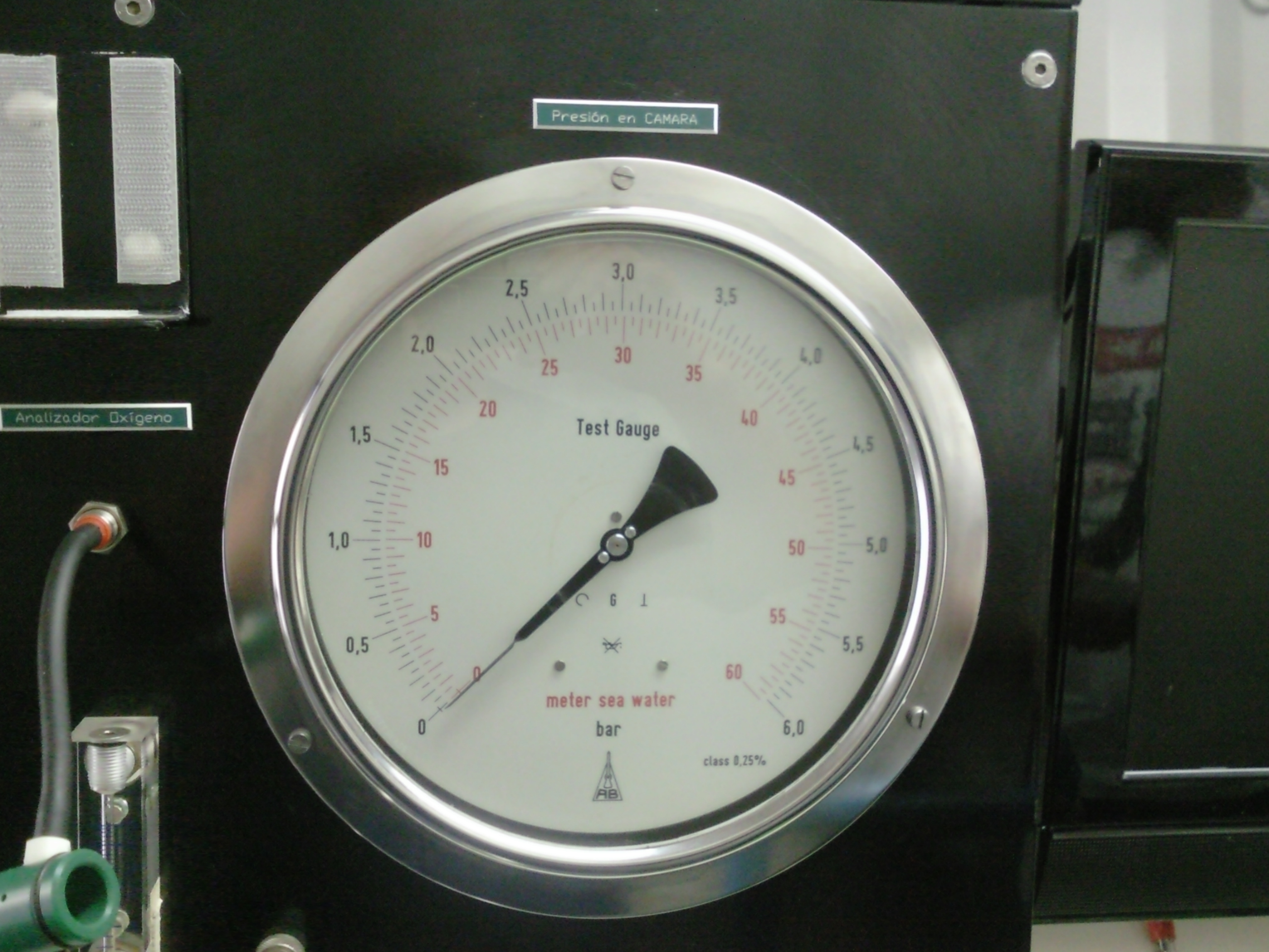 Chamber pressure gauge for hyperbatic chamber